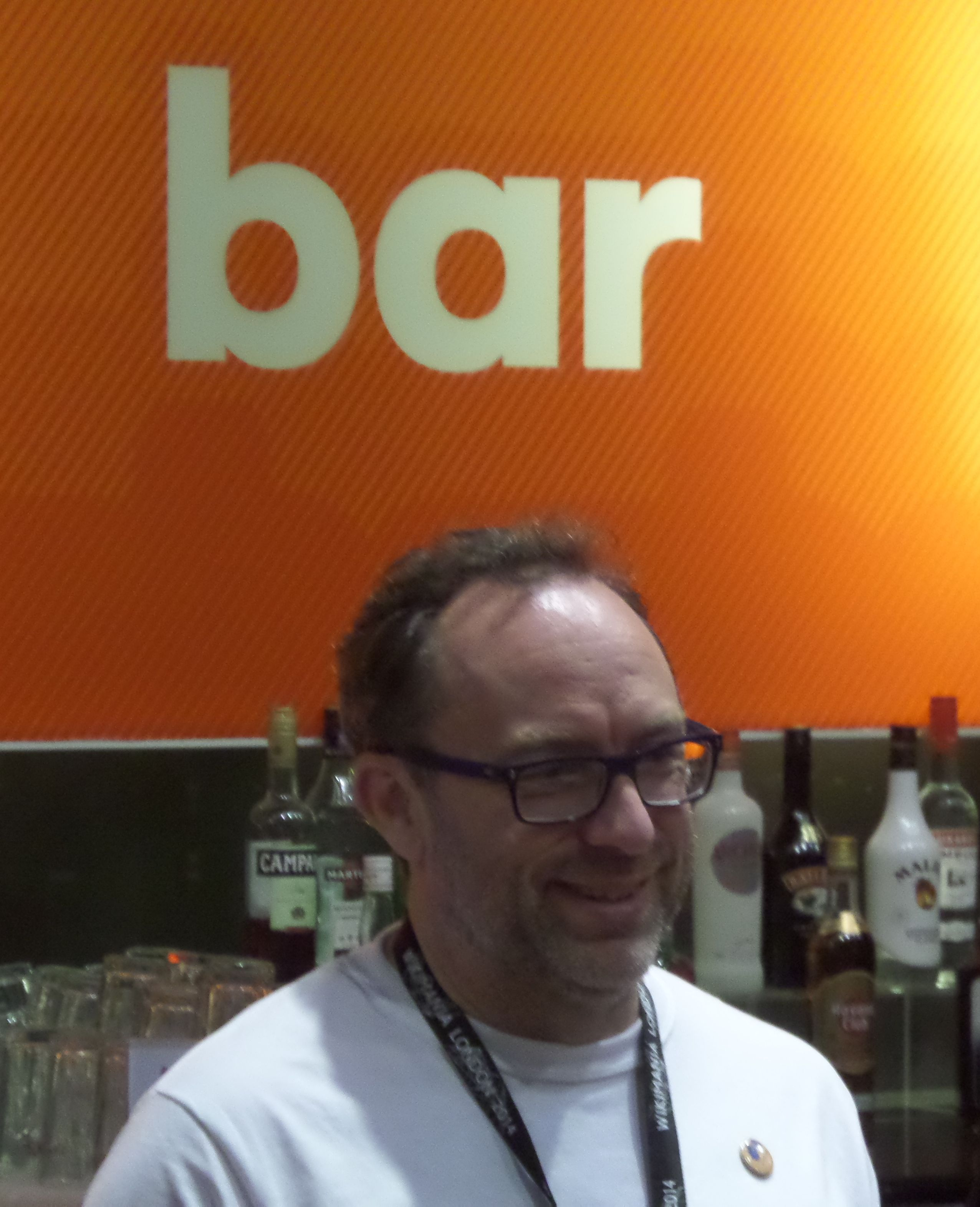 Jimmy Wales in the bar at Wikimania 2014, The Barbican, London, England.